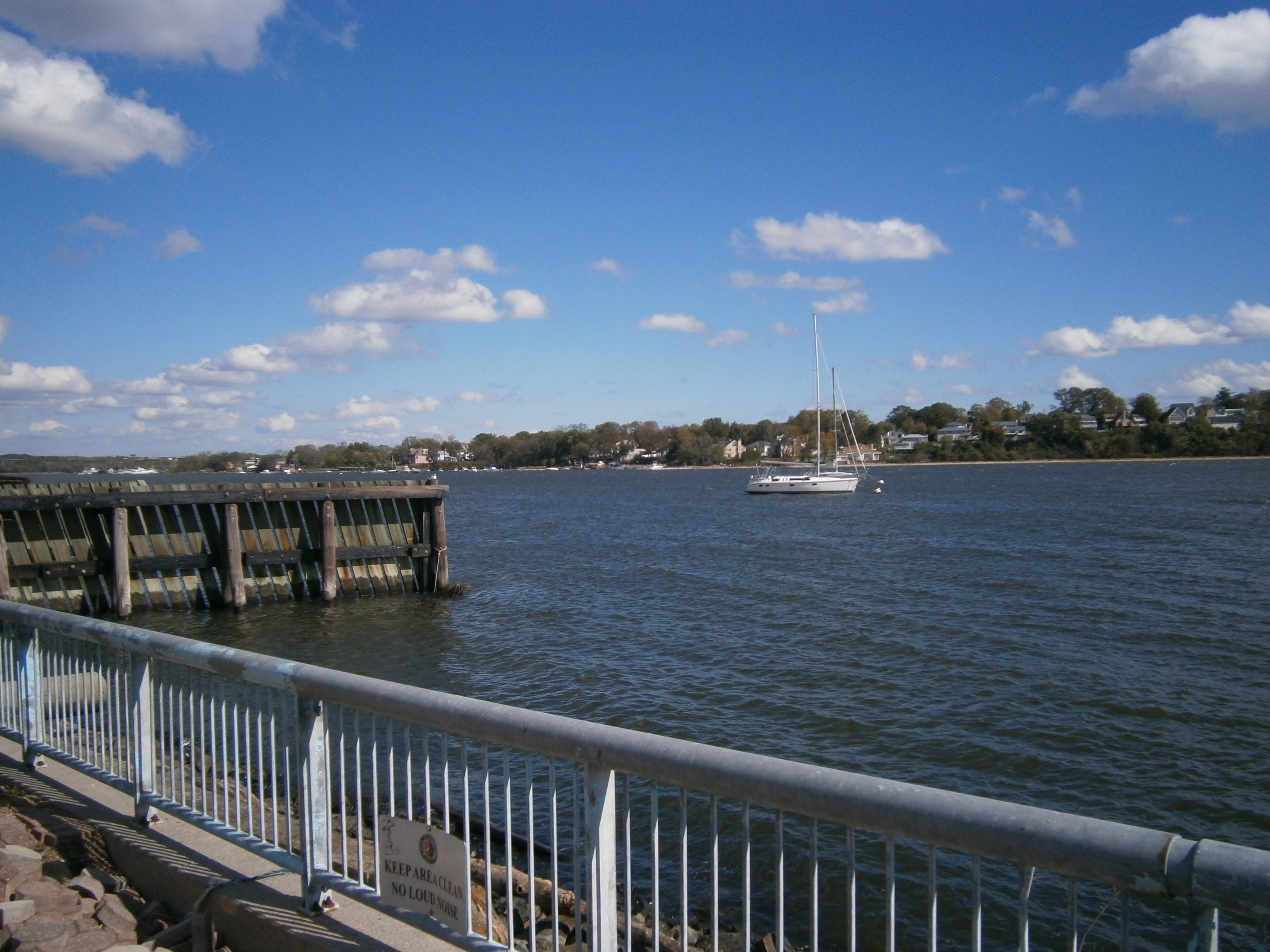 Perth Amboy waterfront at mouth of Arthur Kill near Raritan Bay, just south of Ferry Slip with view to Tottenvile, Staten Island